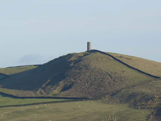 Blacko Tower, near to Blacko, Lancashire, Great Britain. A 19th Century Folly